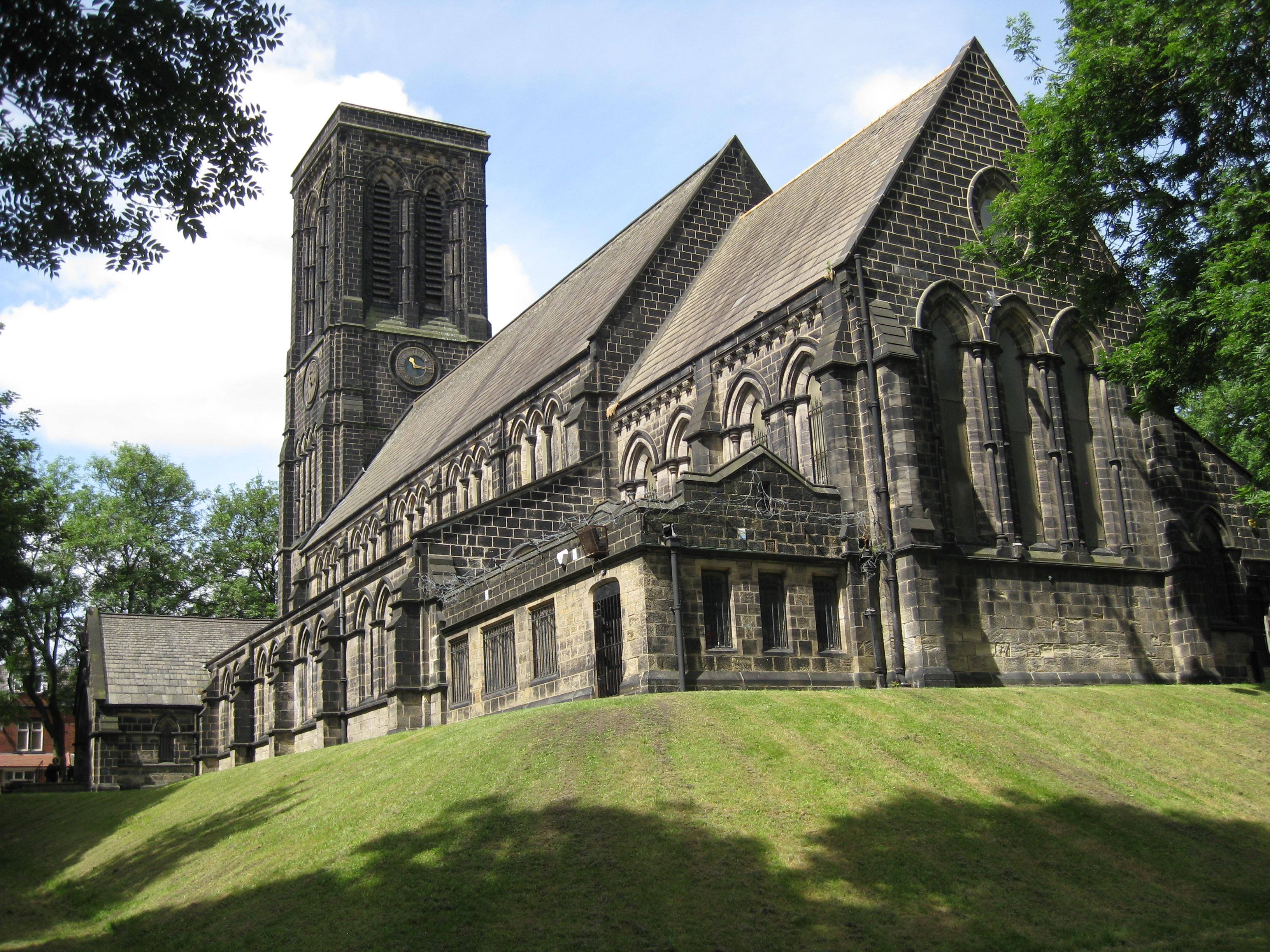 Christ Church, Armley Ridge Road, Leeds, LS12 3LD